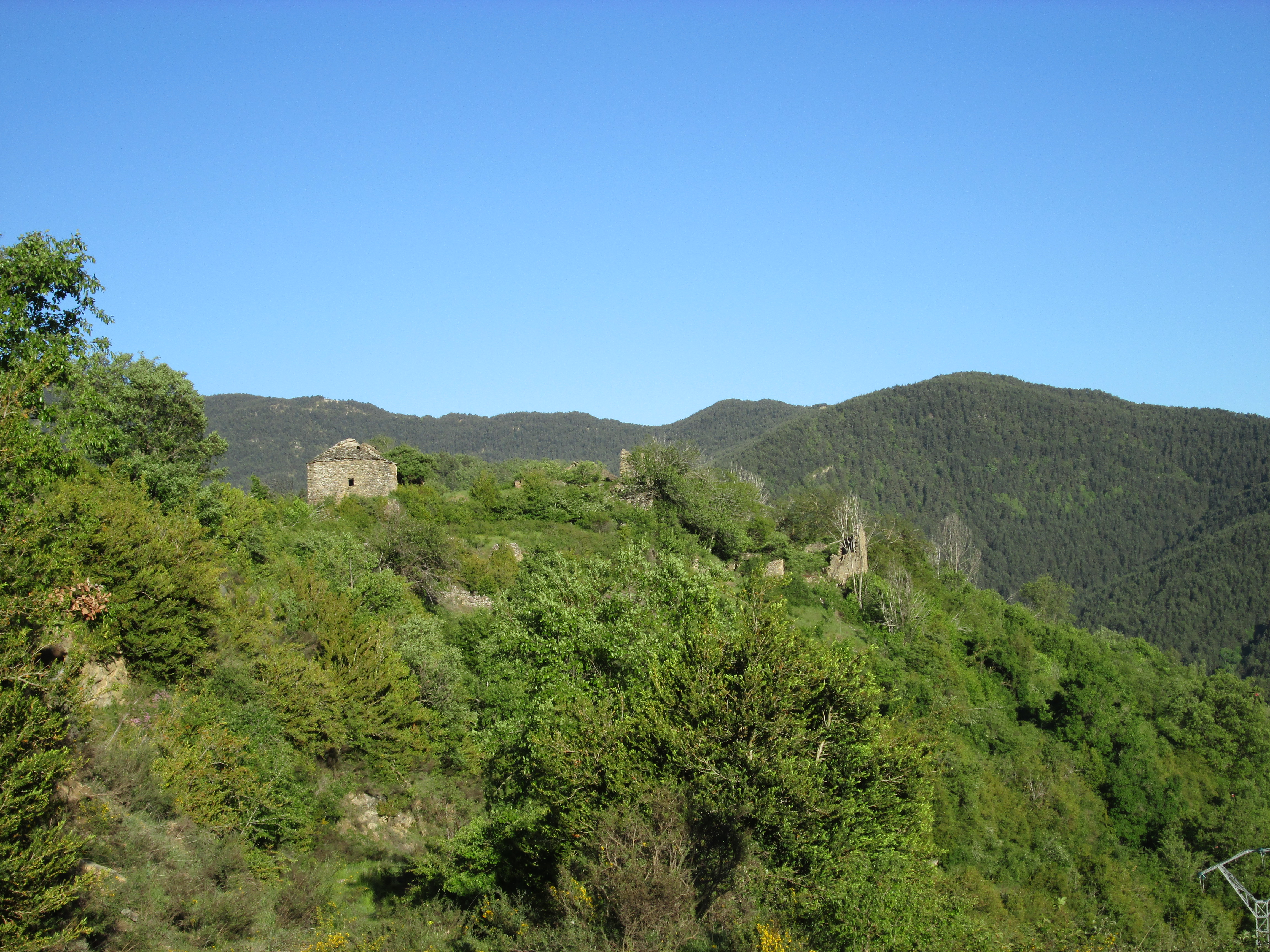 Abandoned village of Fablo, near Gillué, Aragon (2014-05). Municipality of Sabiñánigo.